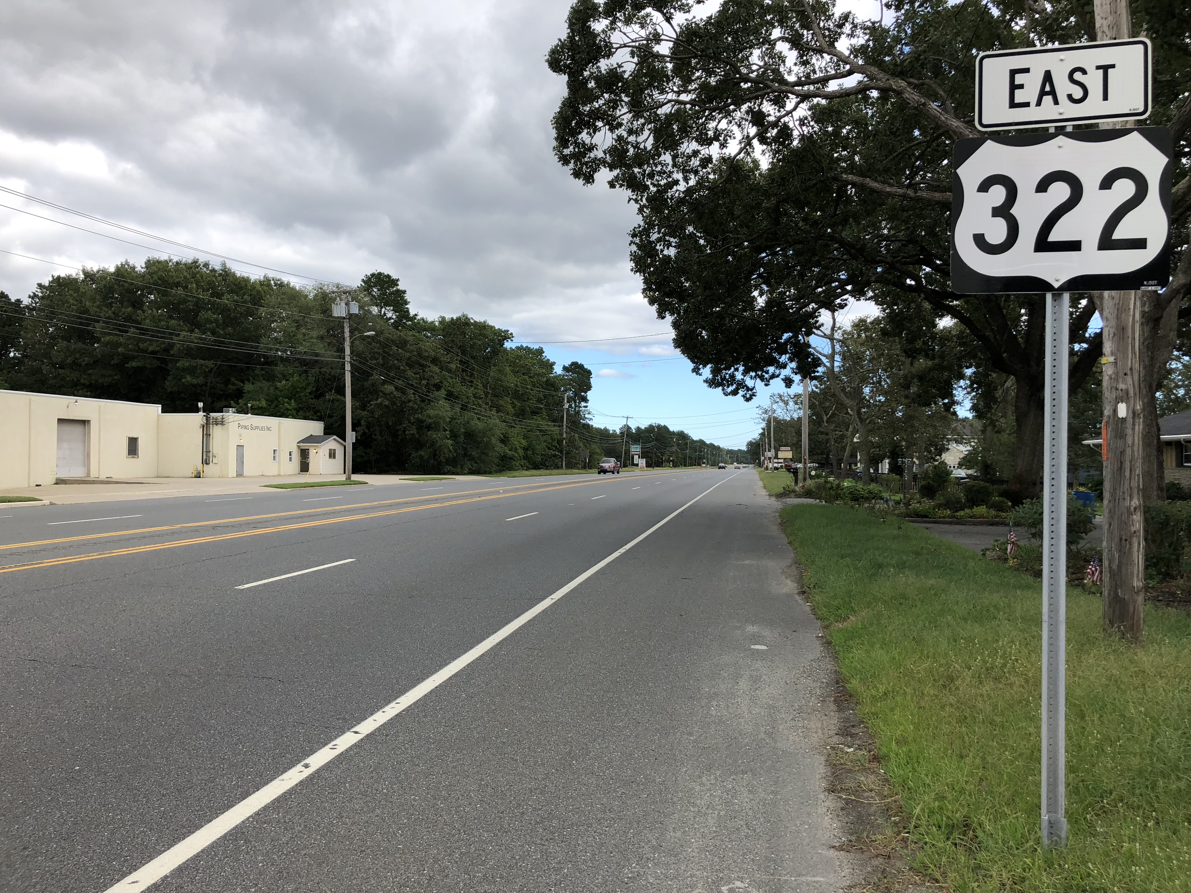 View east along U.S. Route 322 (Black Horse Pike) just east of Cains Mill Road in Folsom, Atlantic County, New Jersey